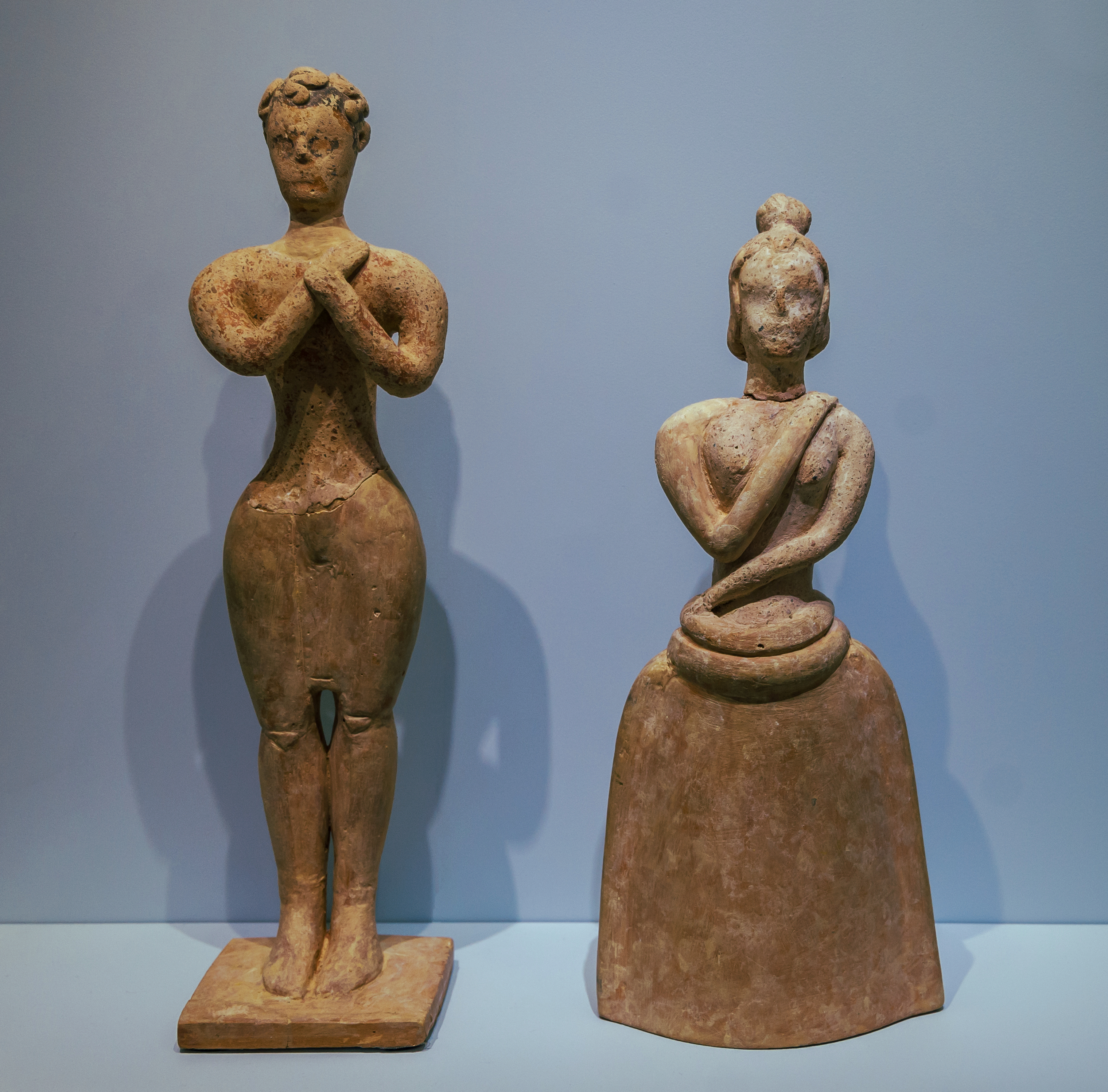 Pair of clay figurines of worshippers exhibiting typical features of the "Figurine art of sanctuaries". The woman is wearing a long skirt and is elaborately coiffed, and the man adorant is wearing a loincloth, with slim waist and overemphasized thighs. Piskokephalo (Sitia), 1650 - 1500 BCE.